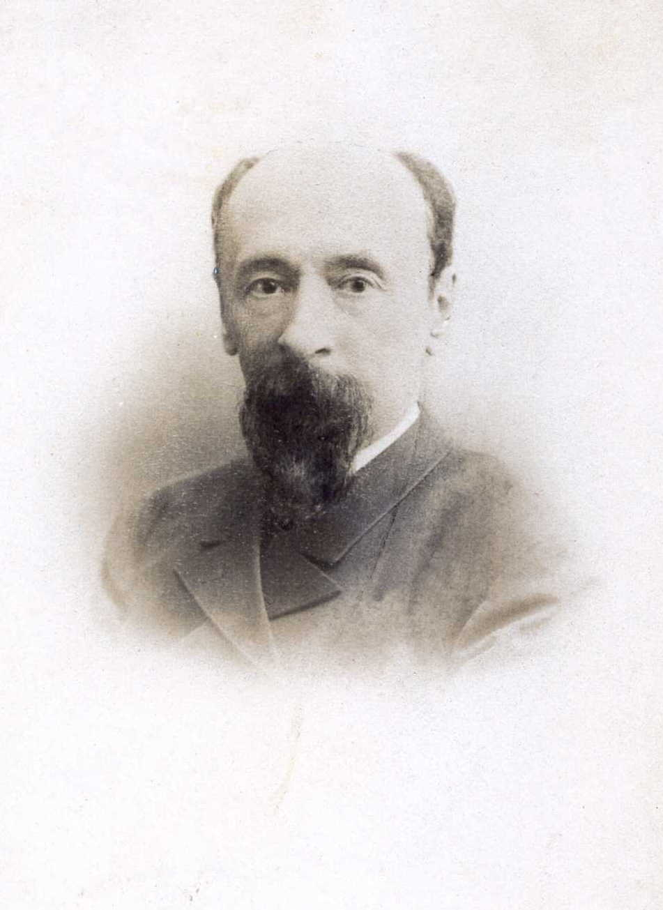 Ivan M. Balinsky -— great russian psychiatrist, doctor of medicine, "founder of Russian psychiatry".